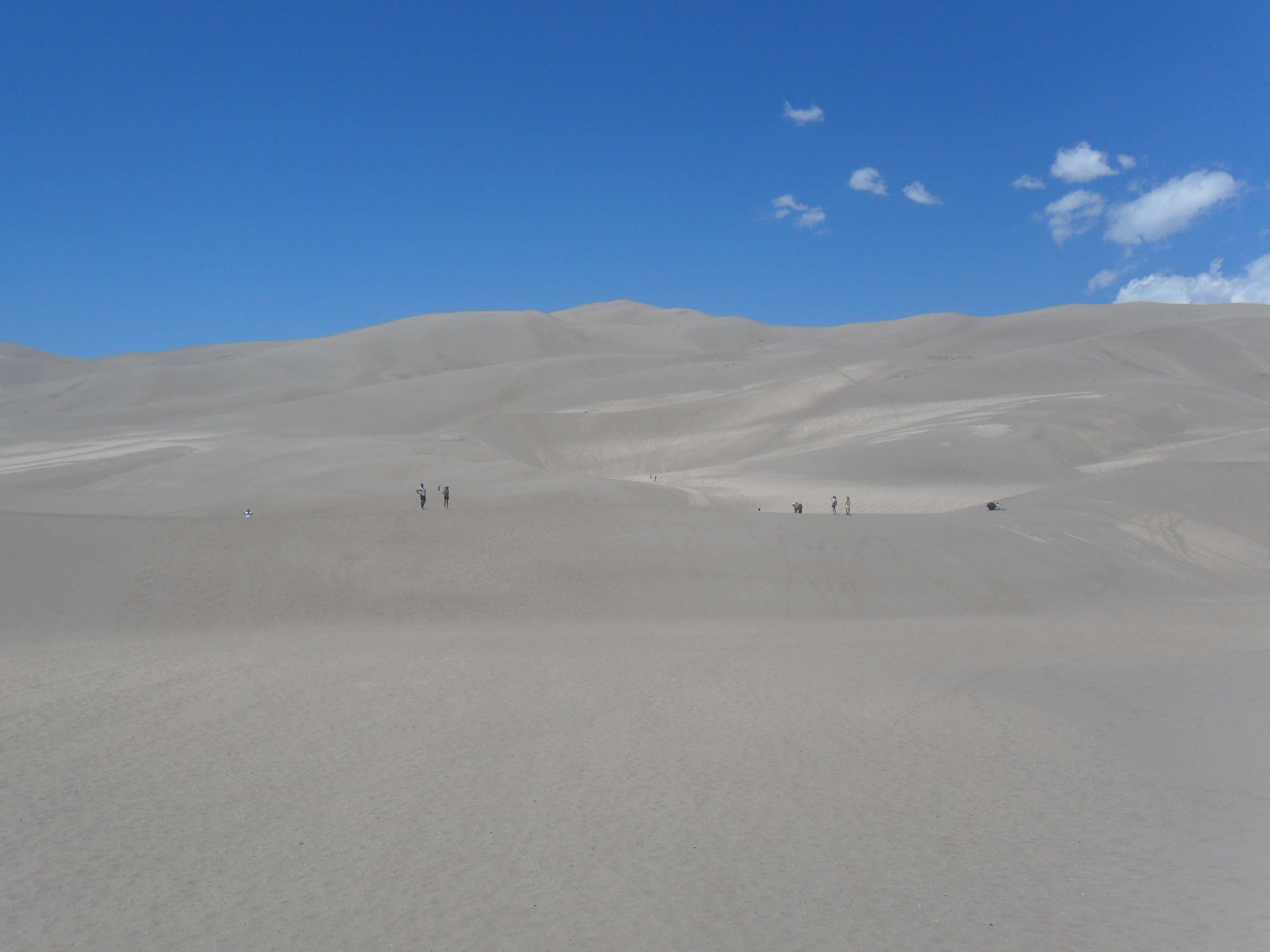 Great Sand Dunes in CO